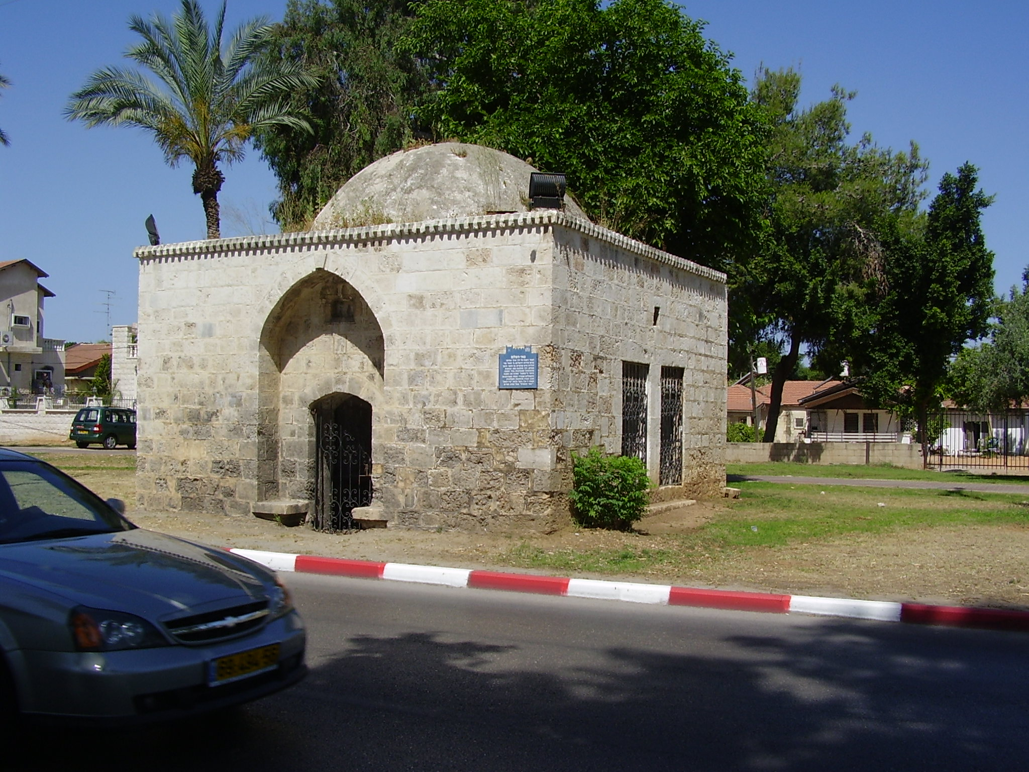 Israel, Lod, "well of peace", sabil (drinking facility) on Jerusalem st. (Sderot Yerushalayim) in Lod